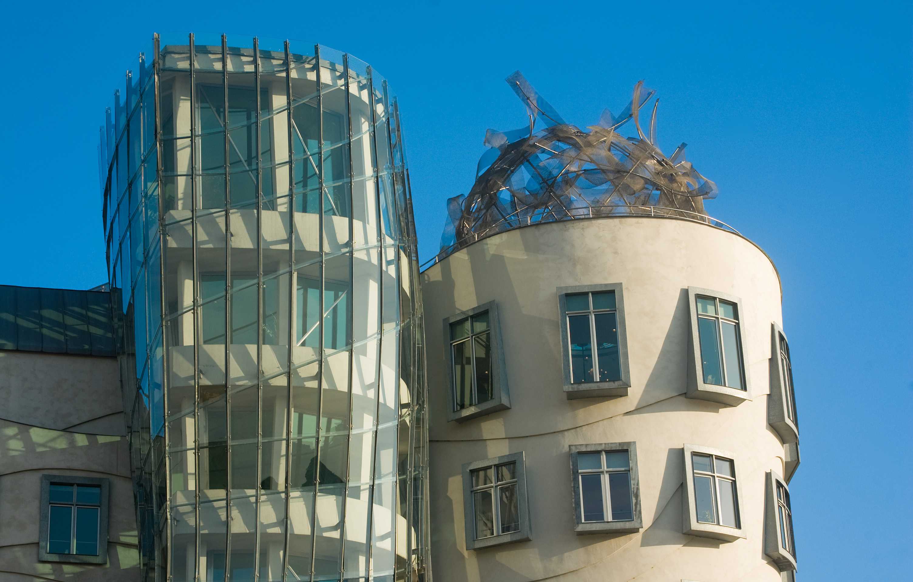 Dancing House, Prague, Czech Republic.